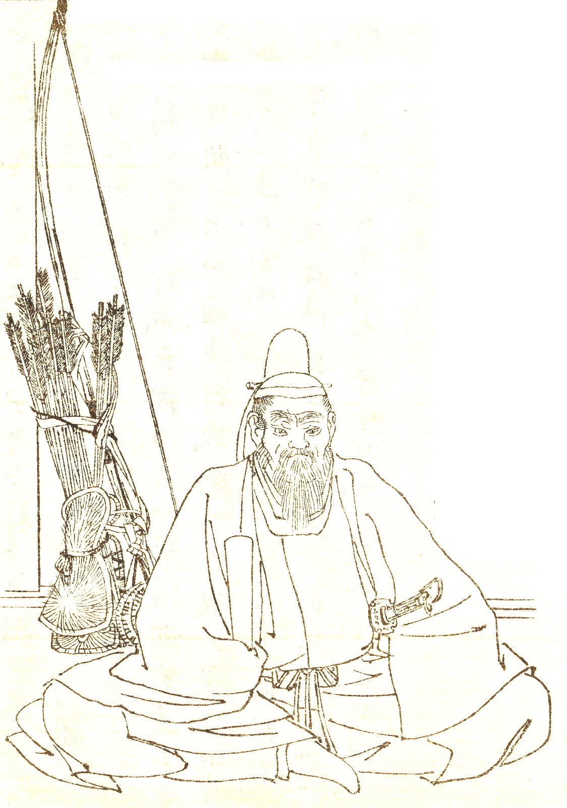 Minamoto no Mitsunaka (源満仲) was a samurai and Court official of Japan's Heian period.This picture was drawn by Kikuchi Yosai（菊池容斎） who was a painter in Japan.